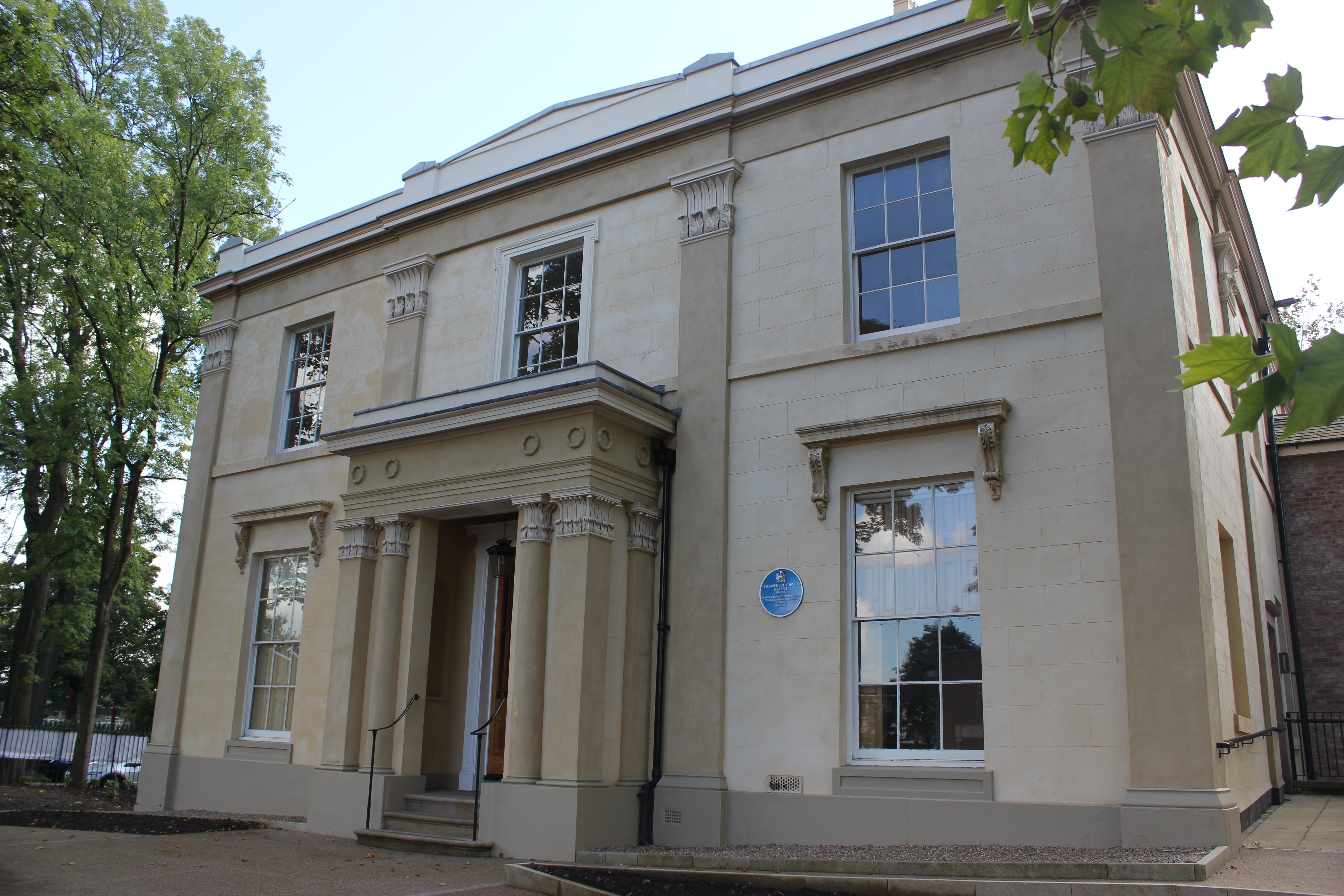 The front facade of 84 Plymouth Grove, once the home of author Elizabeth Gaskell and her husband, the Reverend William Gaskell